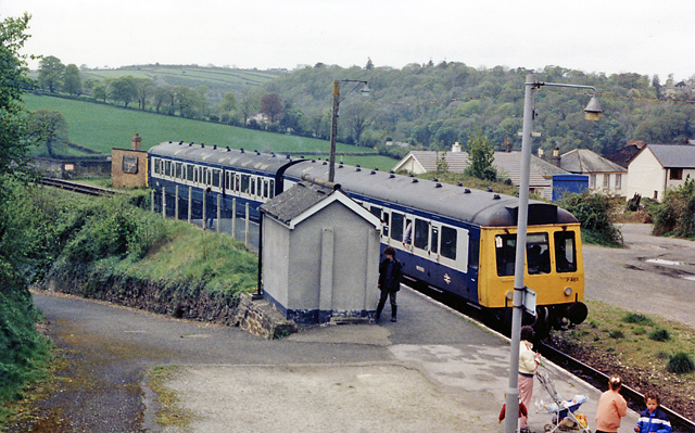 Calstock Station, with train. View SW, towards Calstock Viaduct, Bere Alston and Plymouth; ex-LSW (PD&SWJ) Bere Alston - Callington branch, which was cut back to Gunnislake on 7/11/66. The DMU is arriving on a service from Plymouth North Road to Gunnislake, which evidently still attracts some passengers. See also SX3671 : Site of Callington Station.